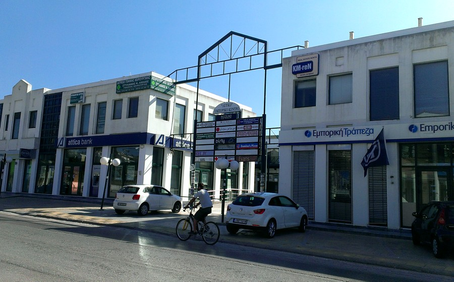 Εμπορικό κέντρο